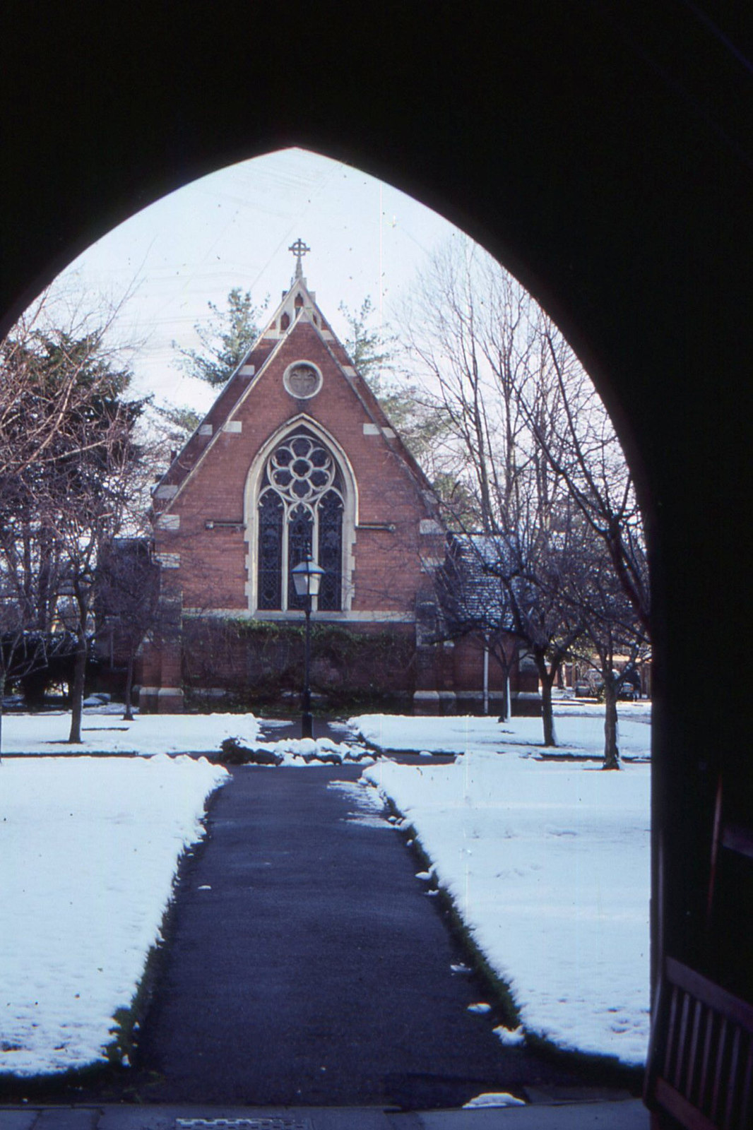 Chapel, St Oswald's Hospital, Worcester